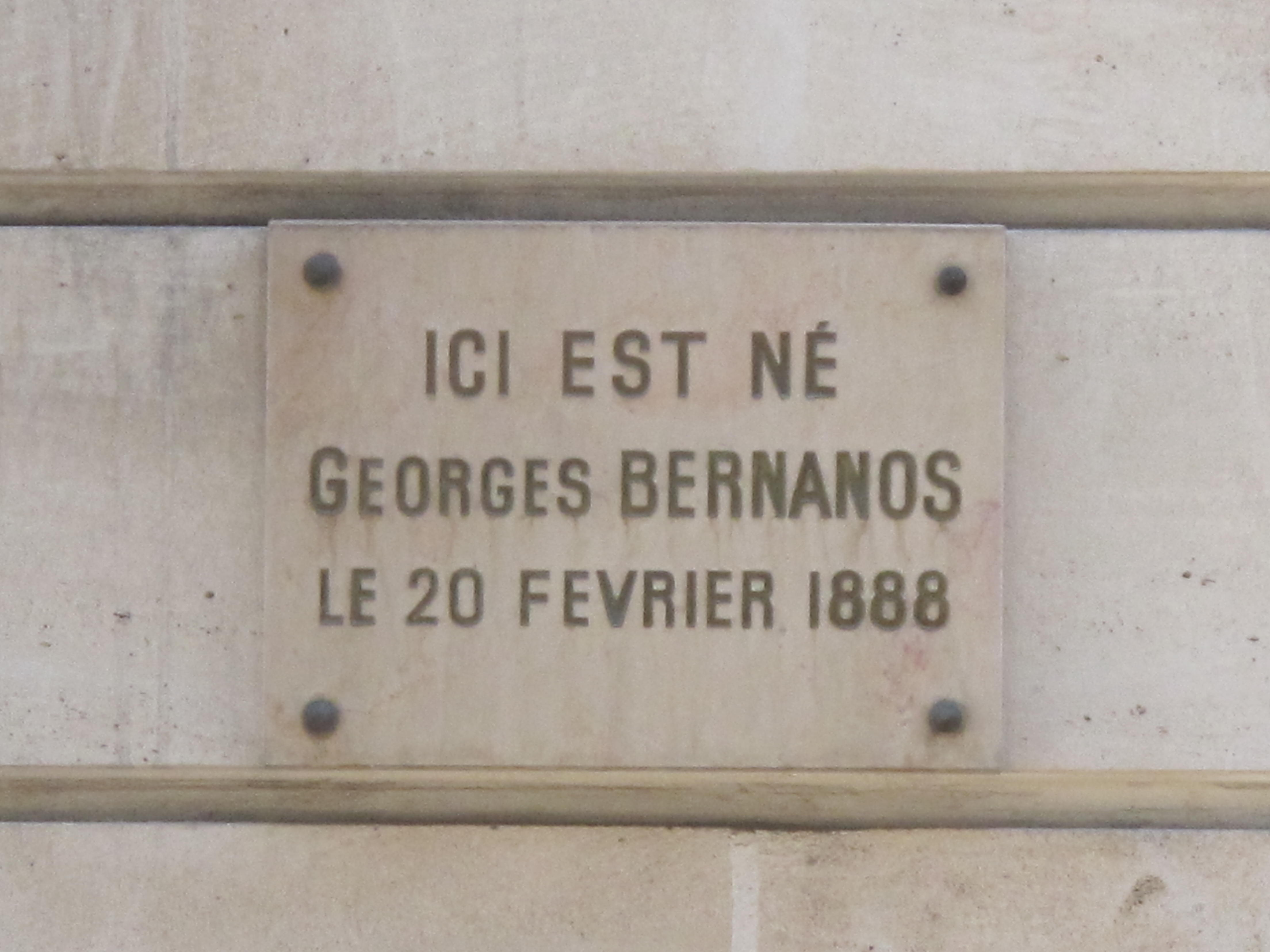 Building where Georges Bernanos was born : 28 rue Joubert, Paris 9th arr.